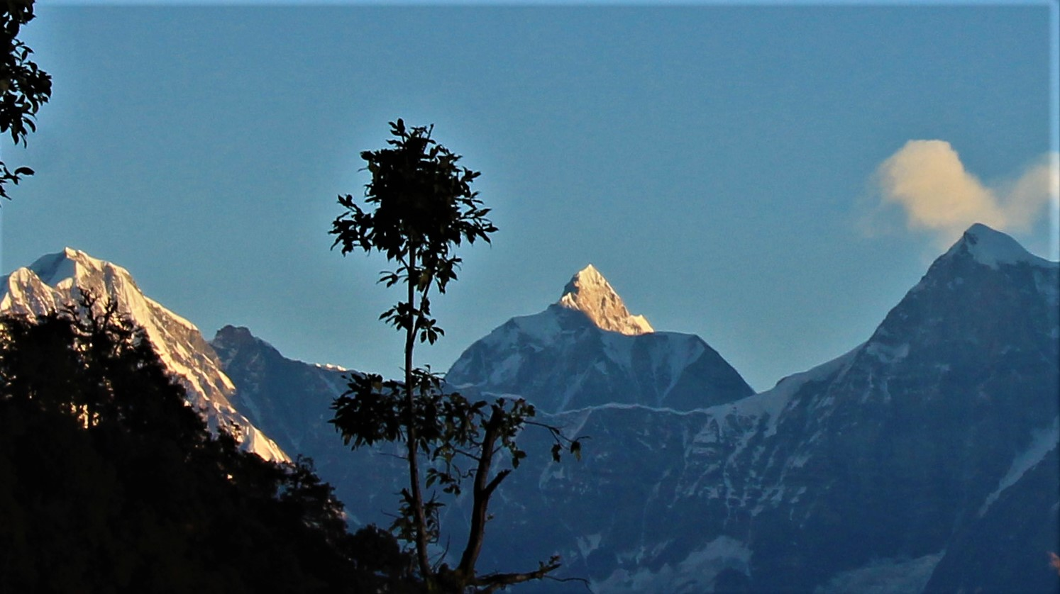 Mandani Janhukutand Chaukhamba IV from (L-R)